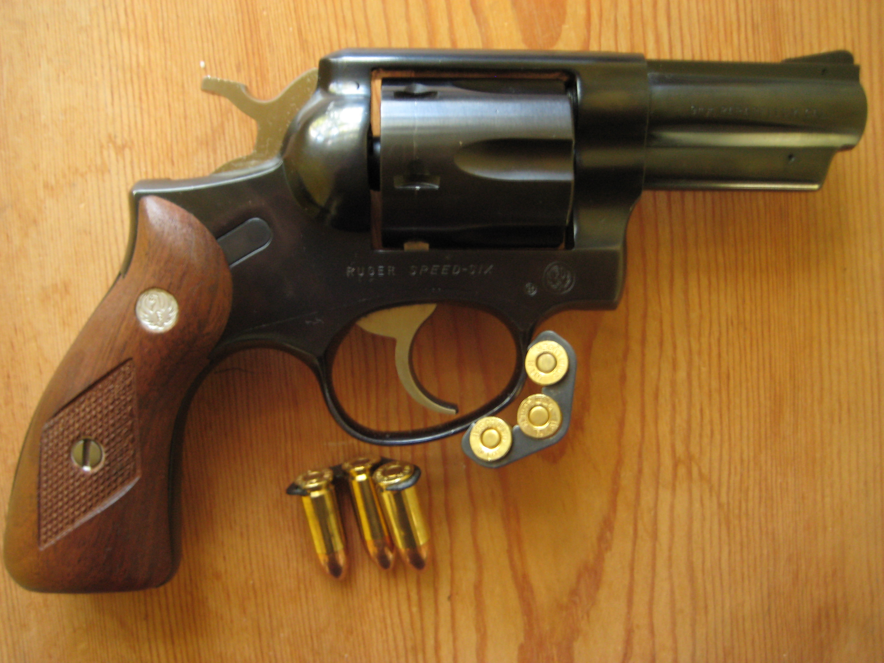 Ruger Speed Six revolver in 9mm with moonclips